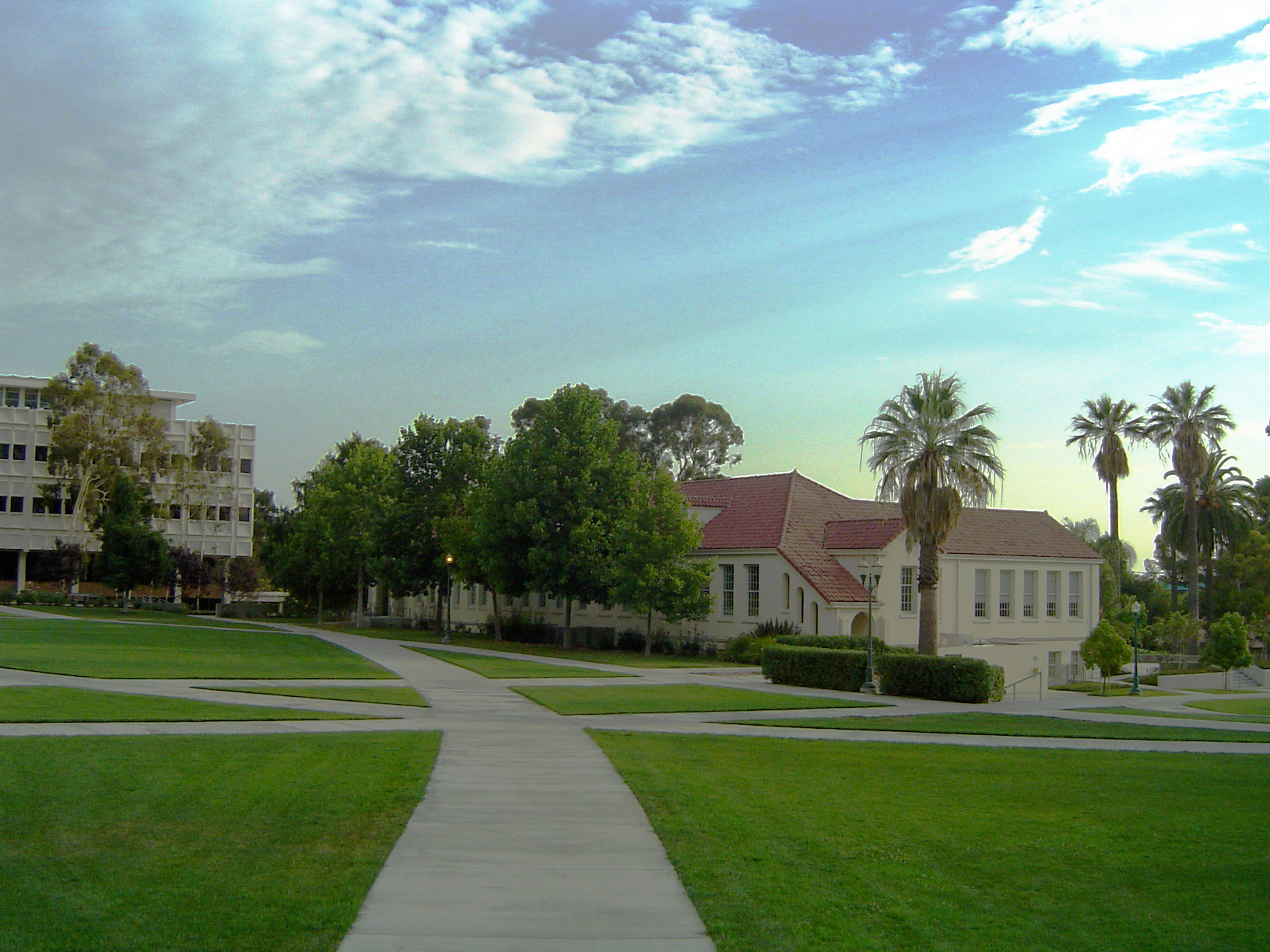 Photographed and uploaded by User:Geographer Looking from Southwest Quadrant to Stauffer Science Center (L) and Victor F. Deihl Hall (R), Whittier College, July 23, 2005.